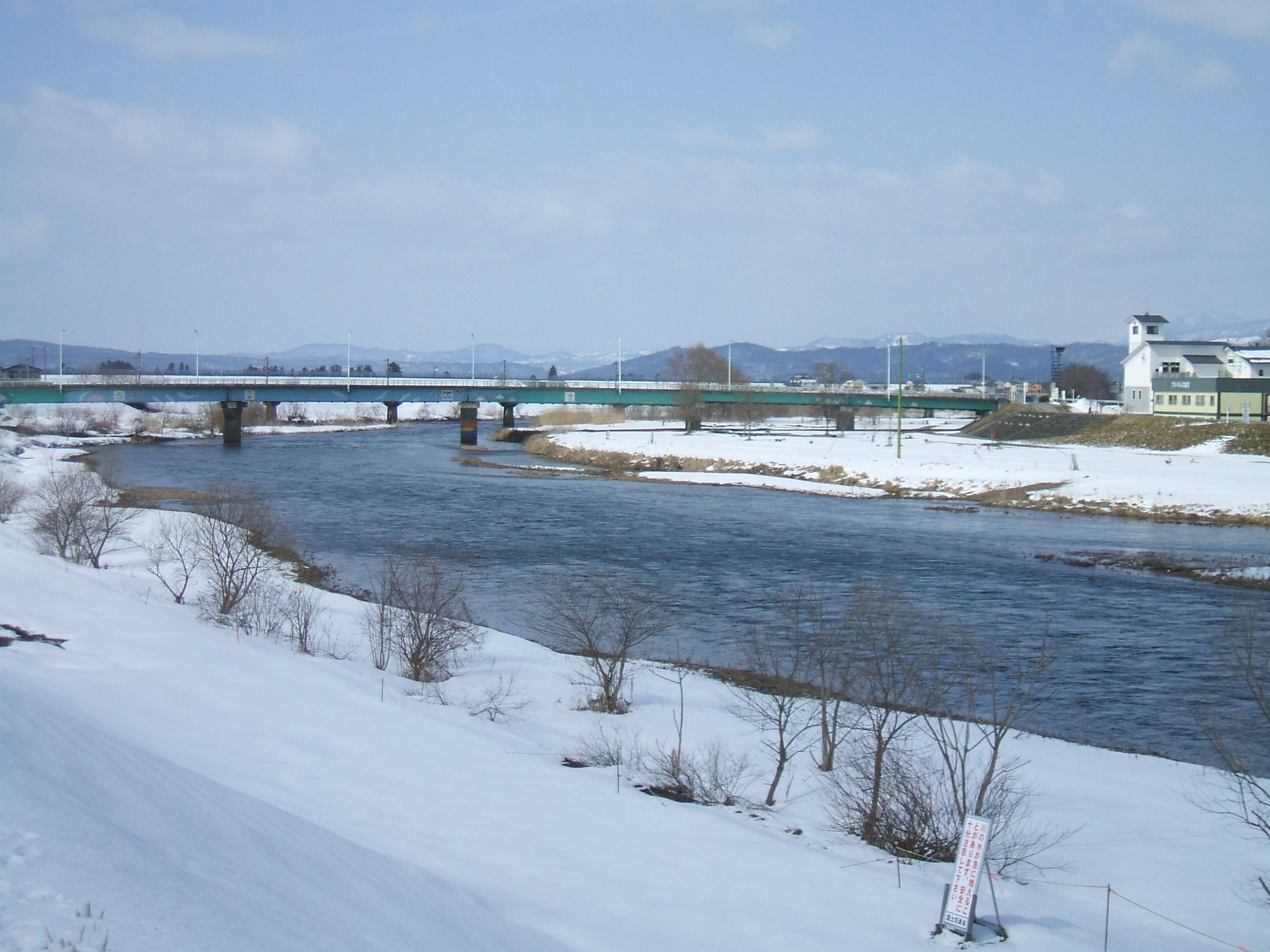 This is a landscape of Nippashi-gawa River. It was taken at Yugawa, Fukushima.